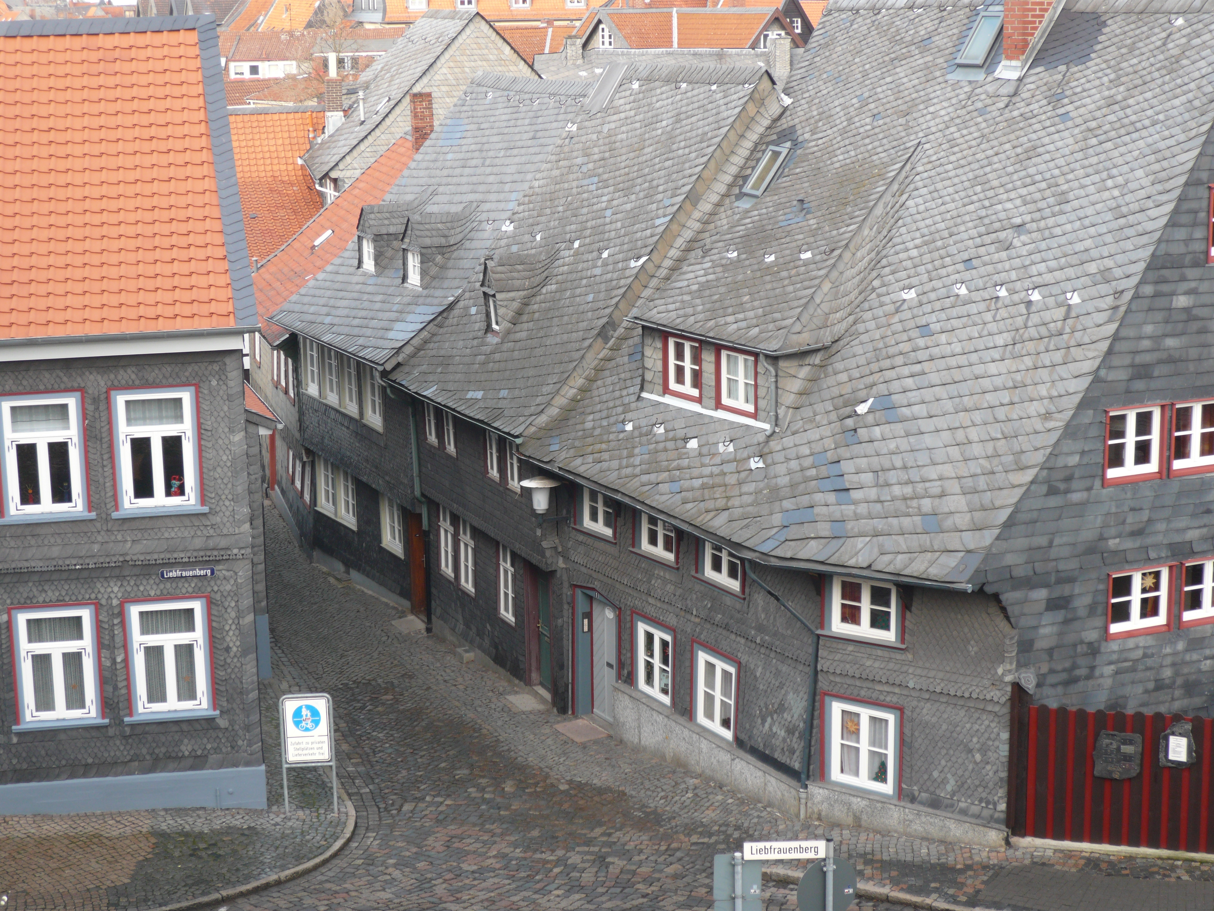 Slate houses in Goslar